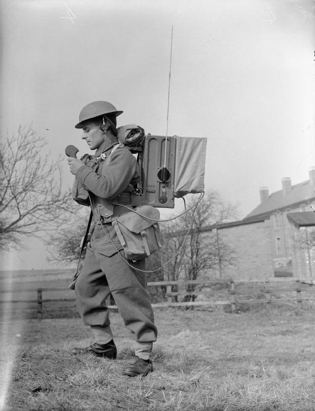 The British Army in the United Kingdom 1939-45 An infantryman carrying the No.18 wireless set, Royal School of Signals, Catterick, 20 March 1941.